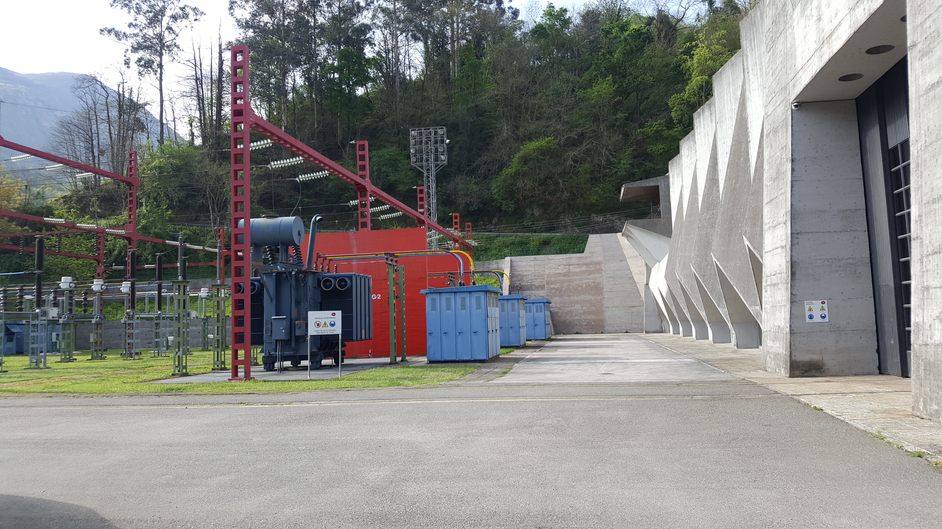 Hidroelectric central in Proaza (asturias, Spain) ended in 196i by the architect Joaquín Vaquero Palacios, a good example of brutalism in architecture